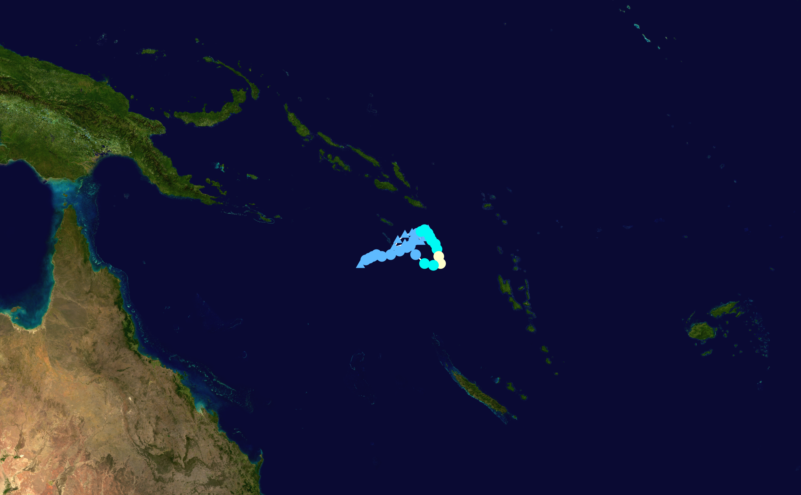 Cyclone Yani (2006) track. Uses the color scheme from the Saffir-Simpson Hurricane Scale.